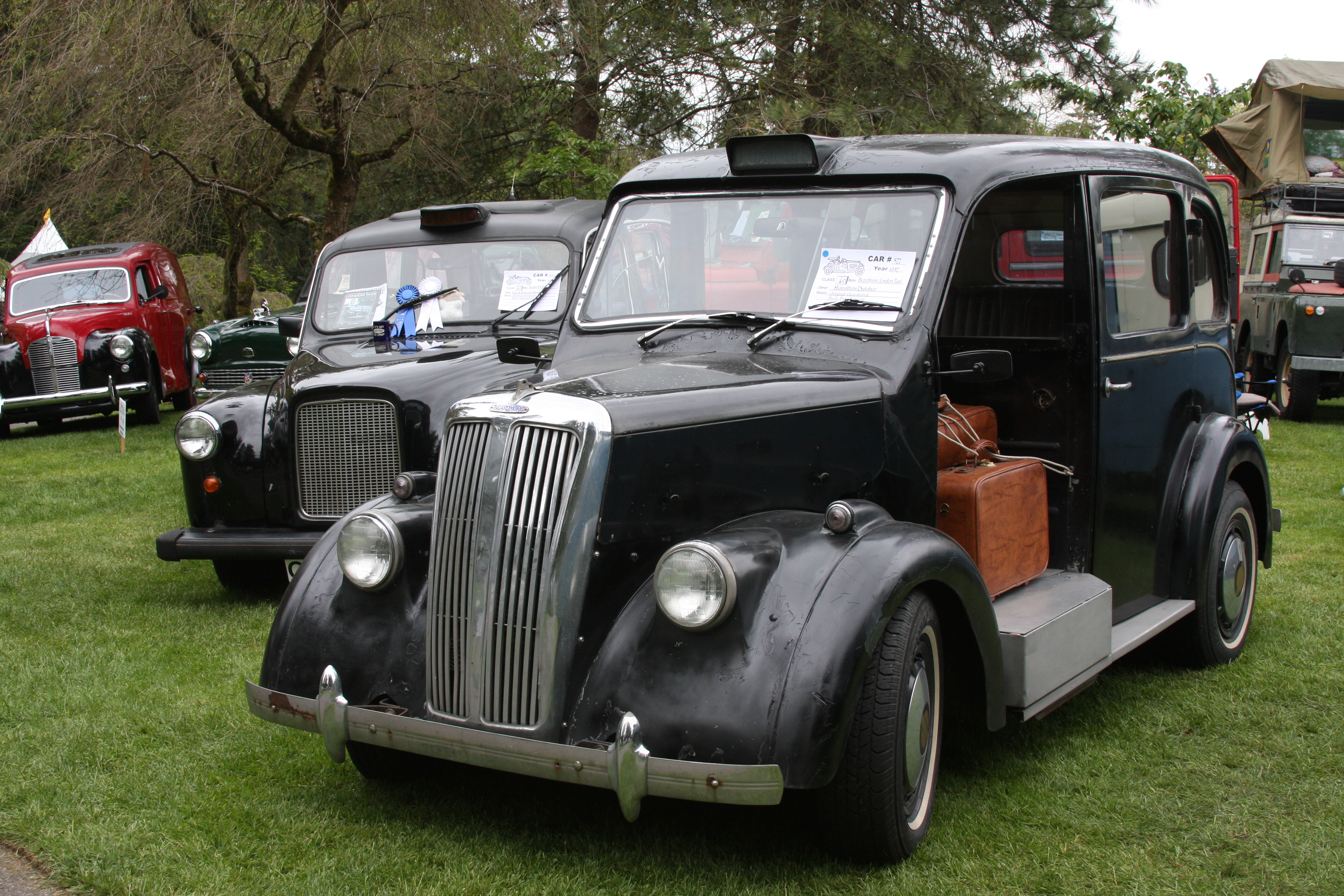 1937 Beardmore Taxi with a more modern Austin behind.